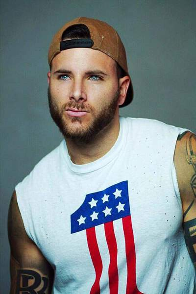 Esteban Martínez Navarro